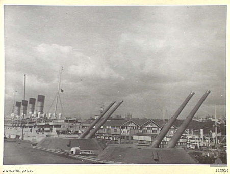 QF 4.5 inch Mk III guns of British aircraft carrier HMS Formidable, in Sydney harbour.